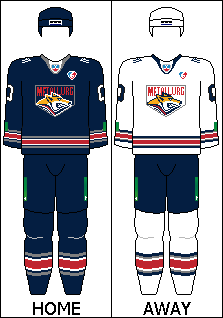 Magnitogorsk Metallurg uniforms for 2013/2014 KHL season.